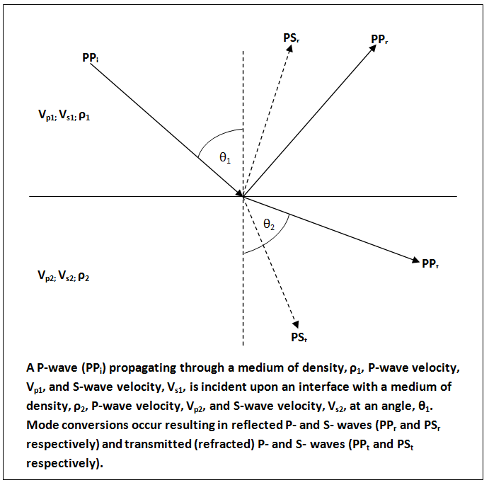 Diagram shows the mode conversions that occur at an interface from an incident P-wave.